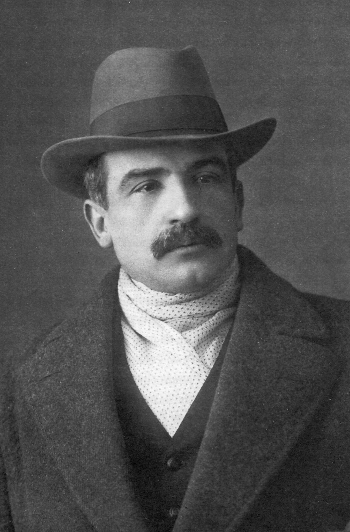 Portrait of Blas Zambrano (1874-1938). Photographic archive from the Fundación María ZAMBRANO, Velez Malaga, where not listed or mentioned is the author of the photograph.